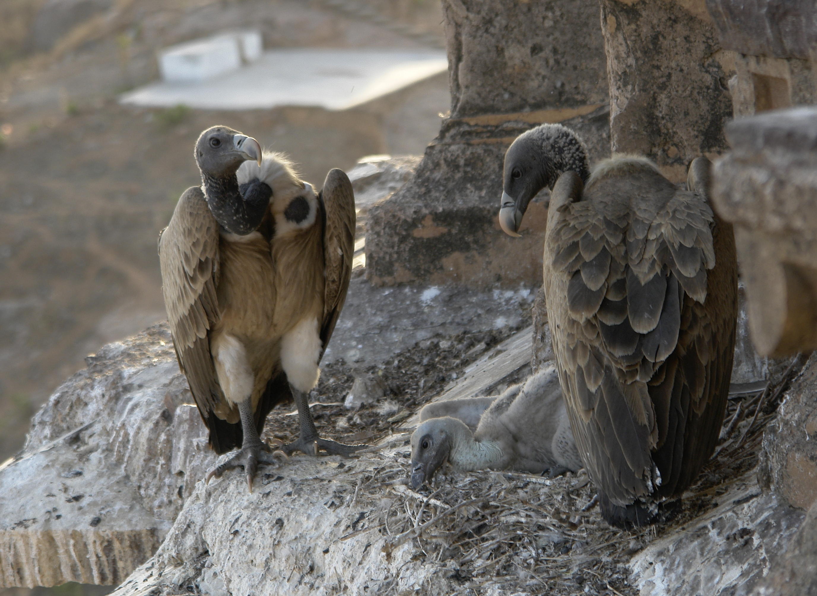 Vultures in the nest (Gyps indicus), Orchha, Madhya Pradesh, India.